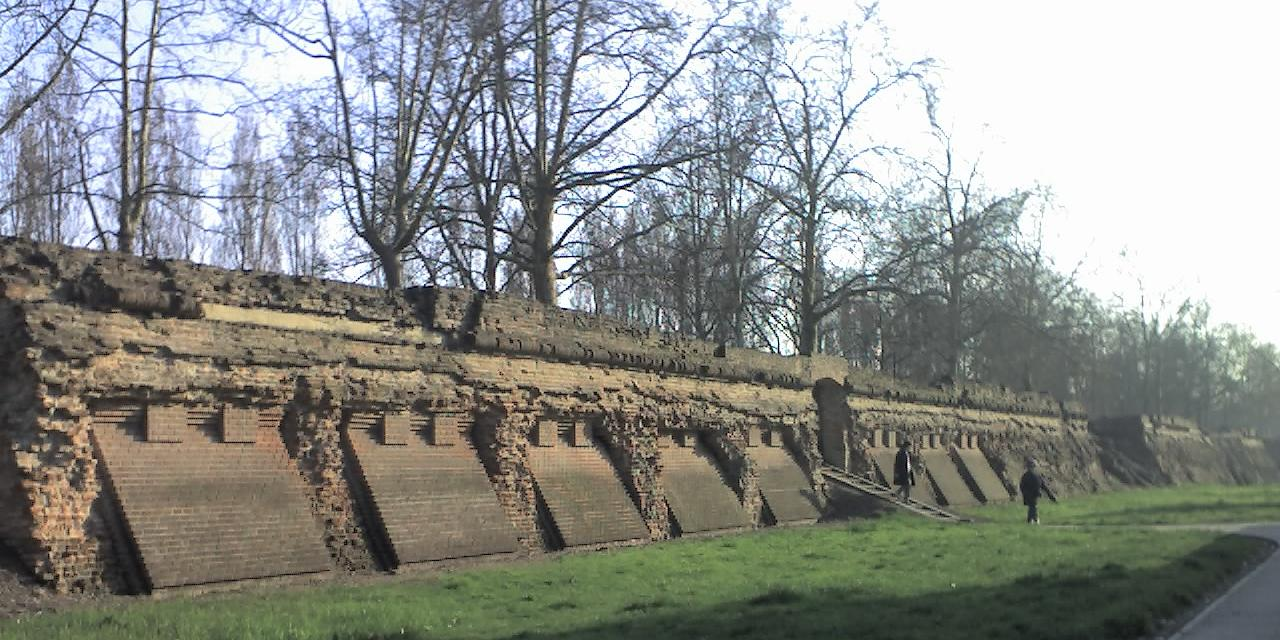 Walls of Ferrara